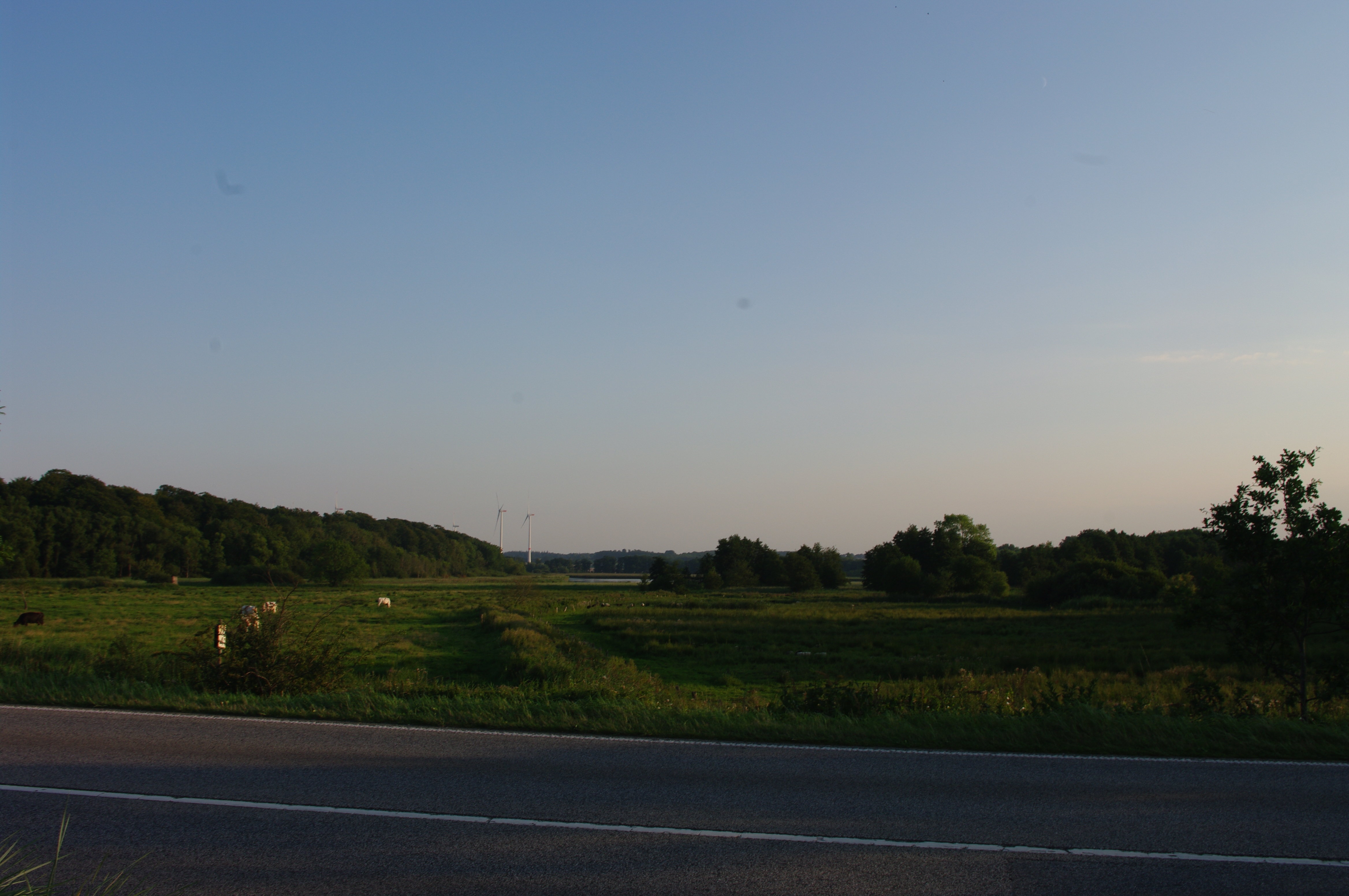 In front of the Goossee the Goossee Meadows. In the foreground, built on a dam, B76.